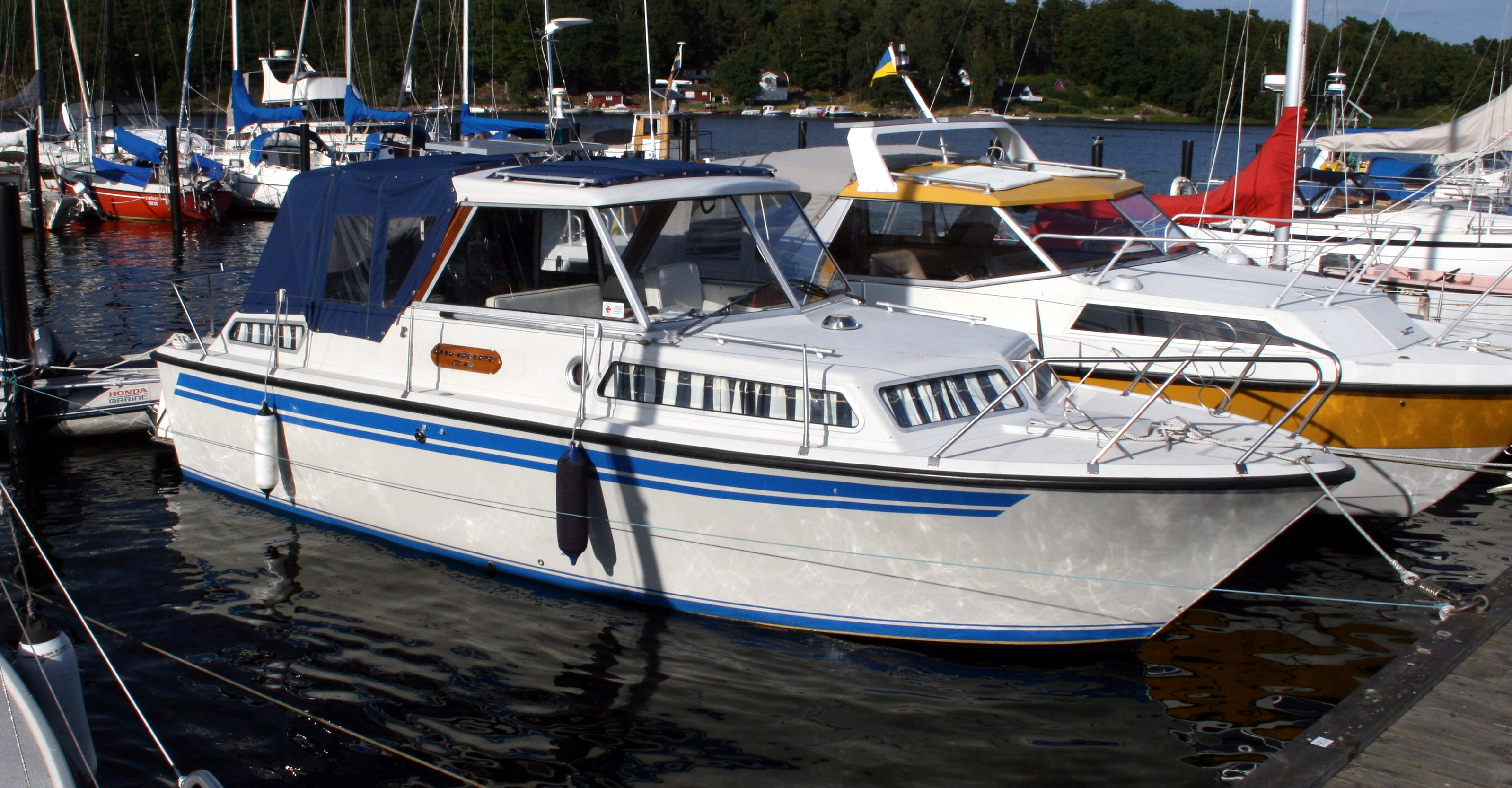 Nimbus 26